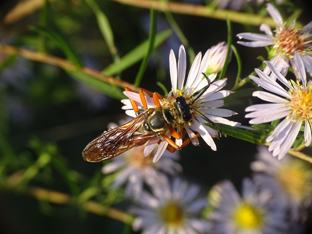 Great Golden Digger Wasp (Sphex ichneumoneus) on Symphyotrichum praealtum (Willowleaf Aster)